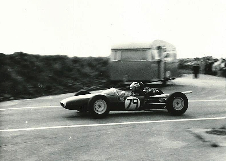 D. McLoy's 1.6 ltr Lotus 31 leaving the paddock for its race for Single Seat Racing Cars - which it won - at the Llandow Circuit, South Wales, August 1967. Scanned print taken with a Kowa SET.